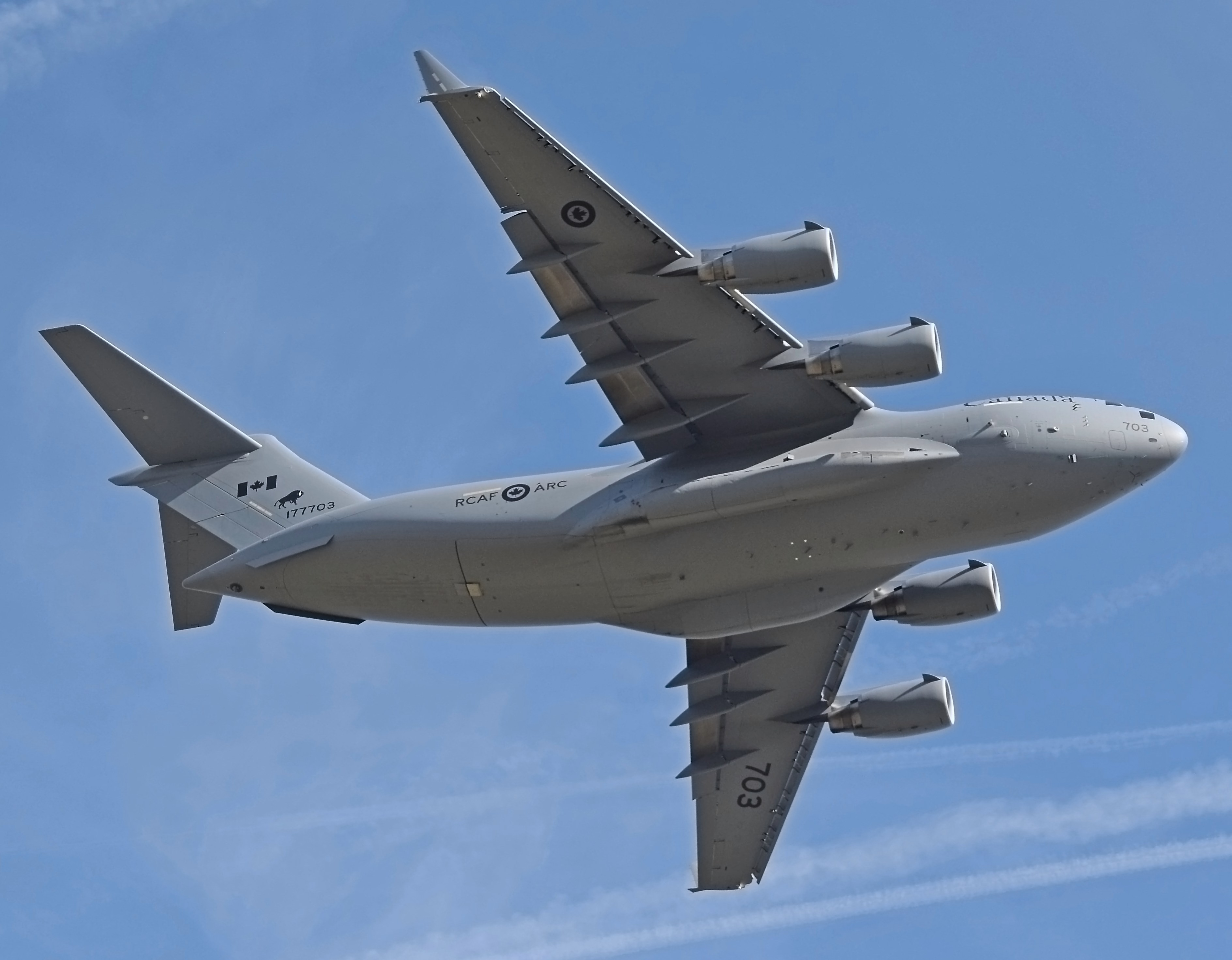 Boeing C-17 Globemaster III (code 177703) of the Royal Canadian Air Force departs the 2017 Royal International Air Tattoo, RAF Fairford, England.